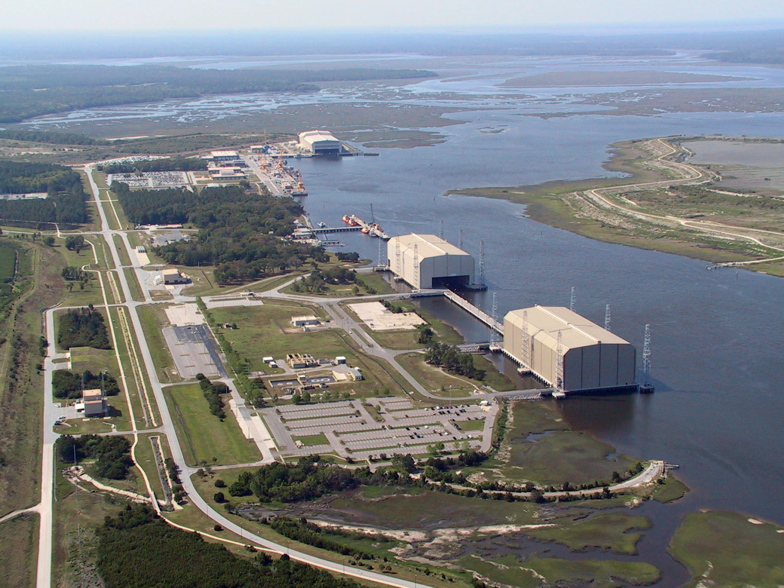 Aerial Photo of King's Bay Naval Base, April 2001